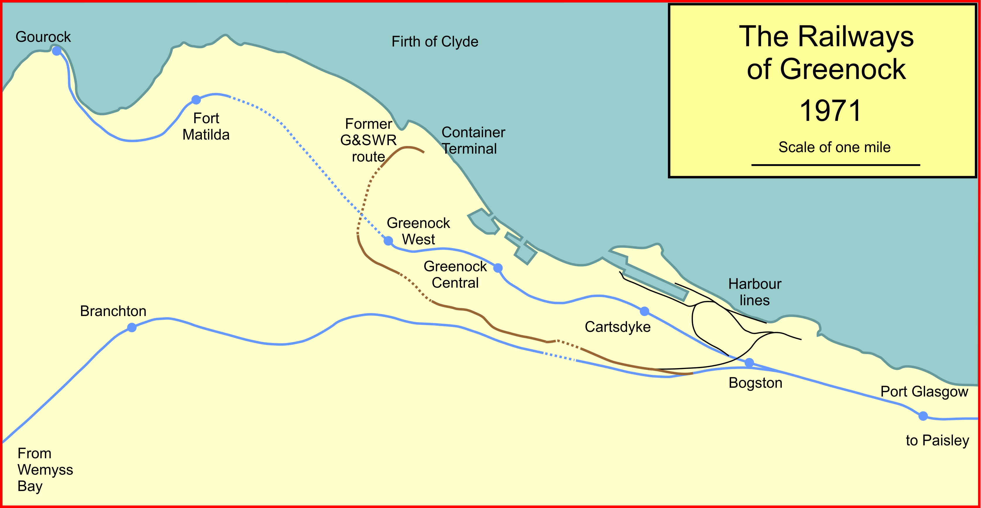 Railways in Greenock, Scotland, in 1971